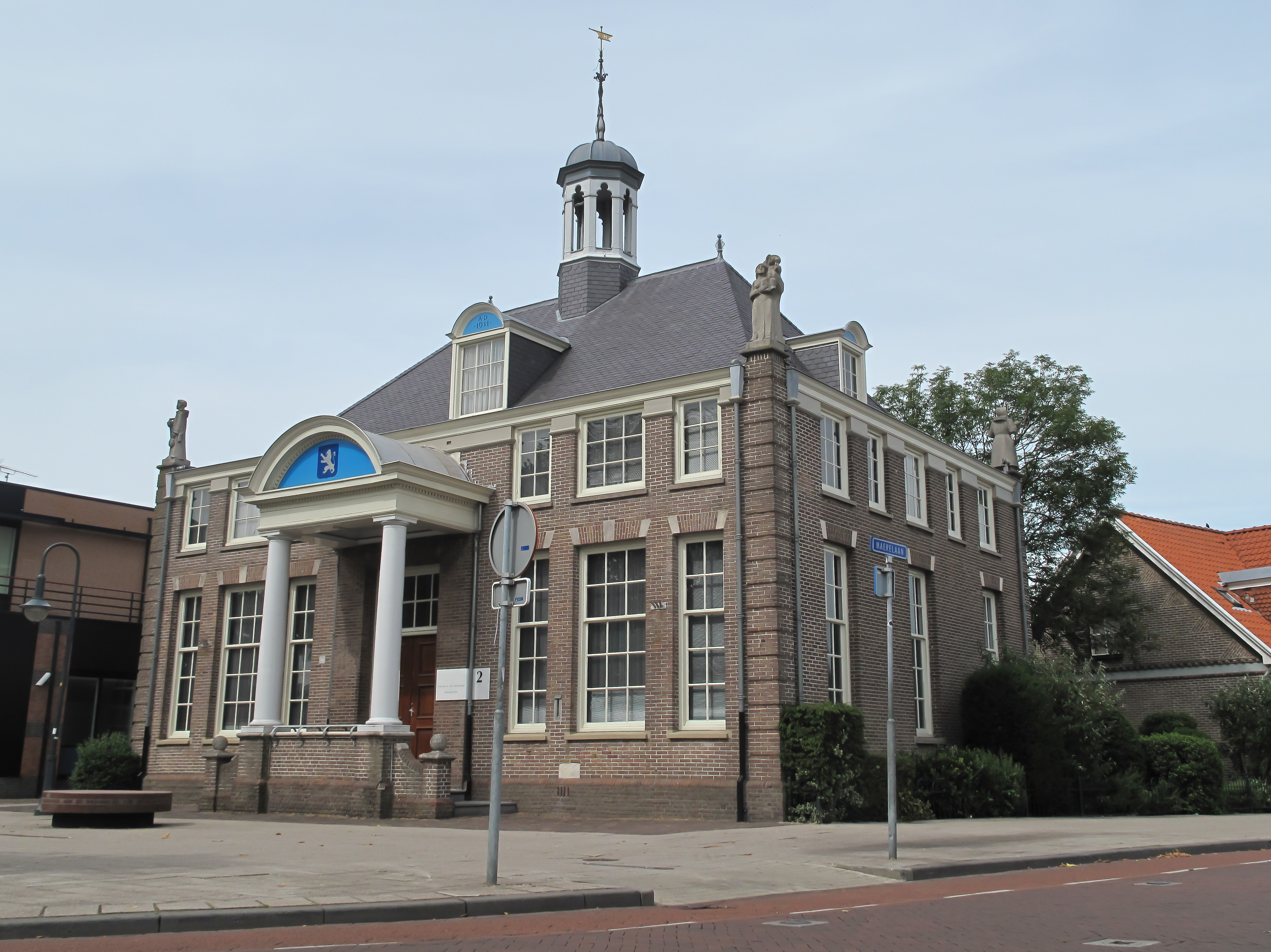 Heemskerk, office building at Burg. Nielenplein 2